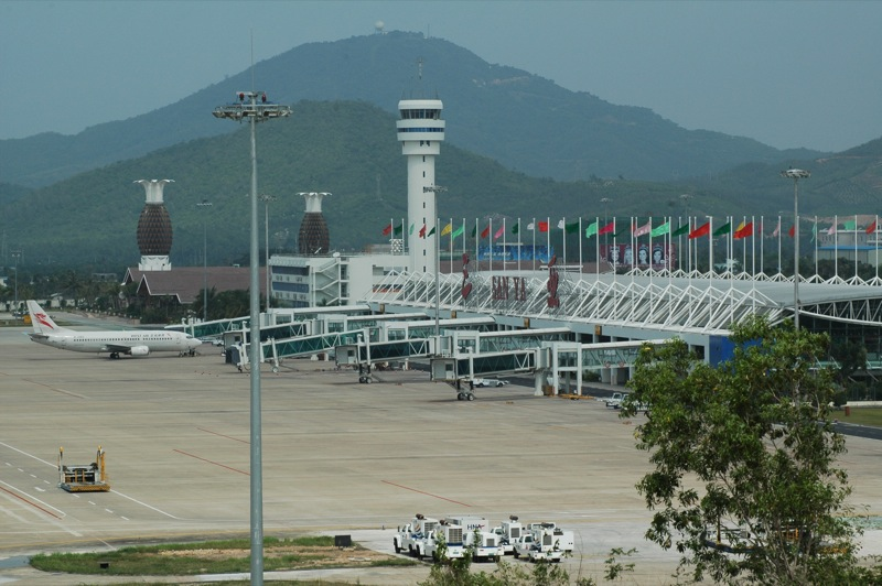 A view of the terminal building (airside) at Sanya Phoenix International Airport (SYX) — with a China West Air B737-300 parked at the gate. On Hainan Island, in Sanya, Hainan Province, Southeast China.